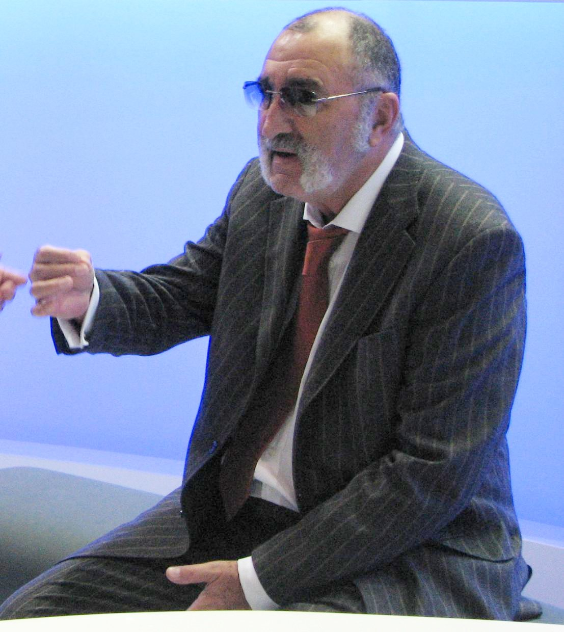 Miki Alexandrescu with one of his famous "friends", Ion Tiriac.